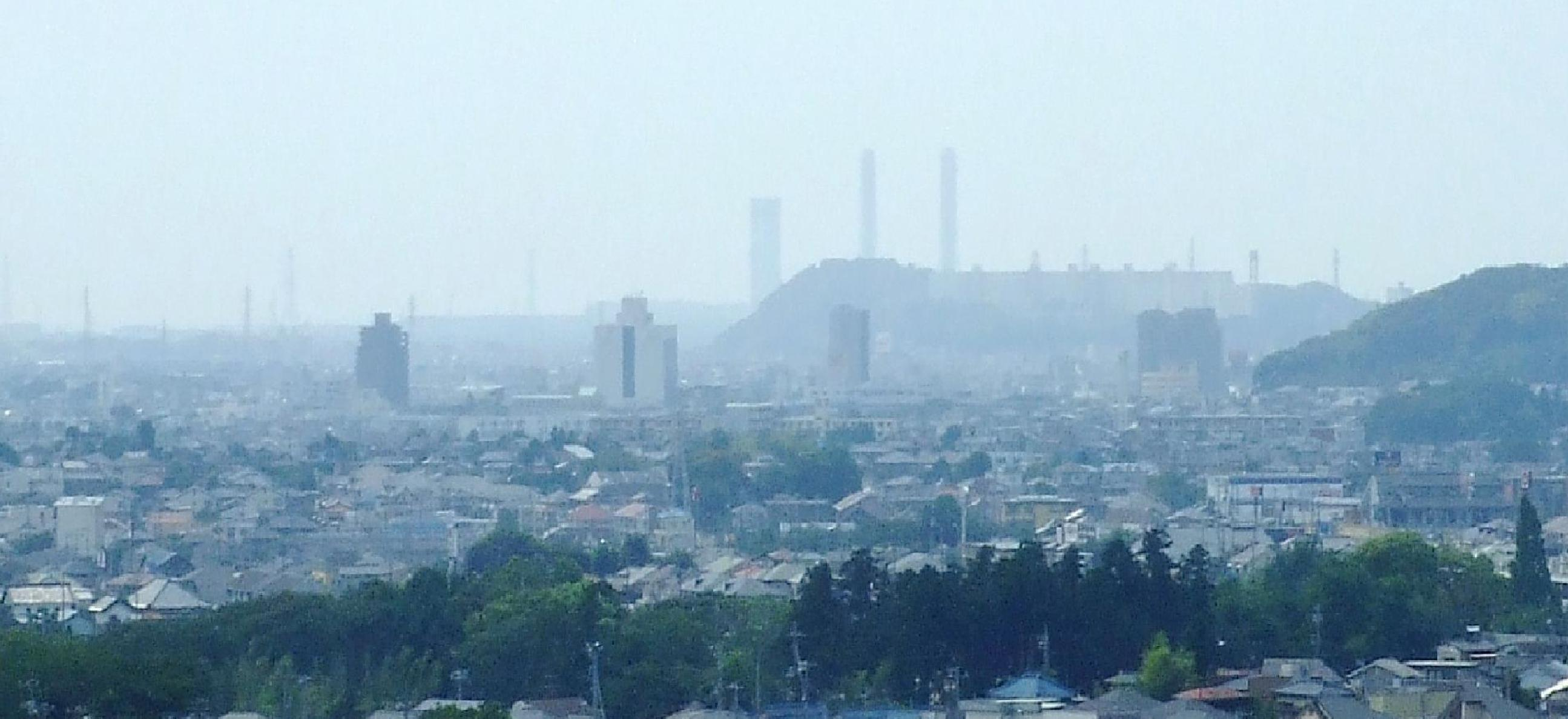 Kimitsu skyline around Kimistu Station